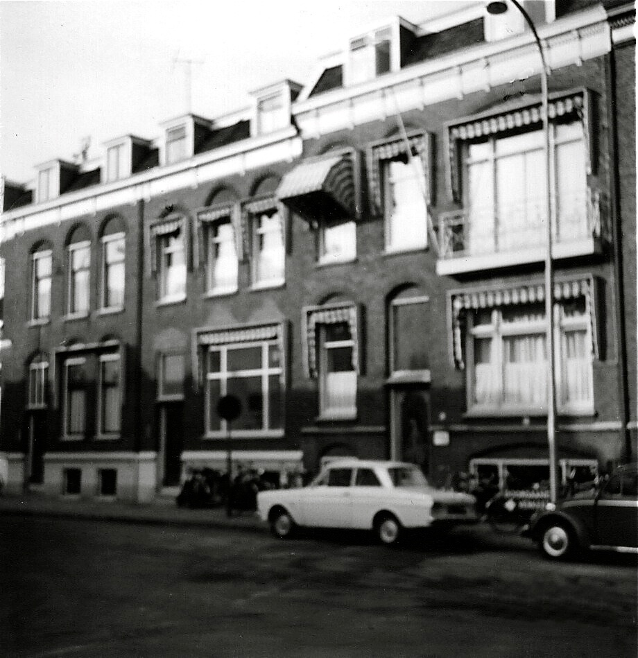 Maternity hospital Huize Ooievaar (House Stork), J.W. Frisostraat 16, Utrecht in June 1967.